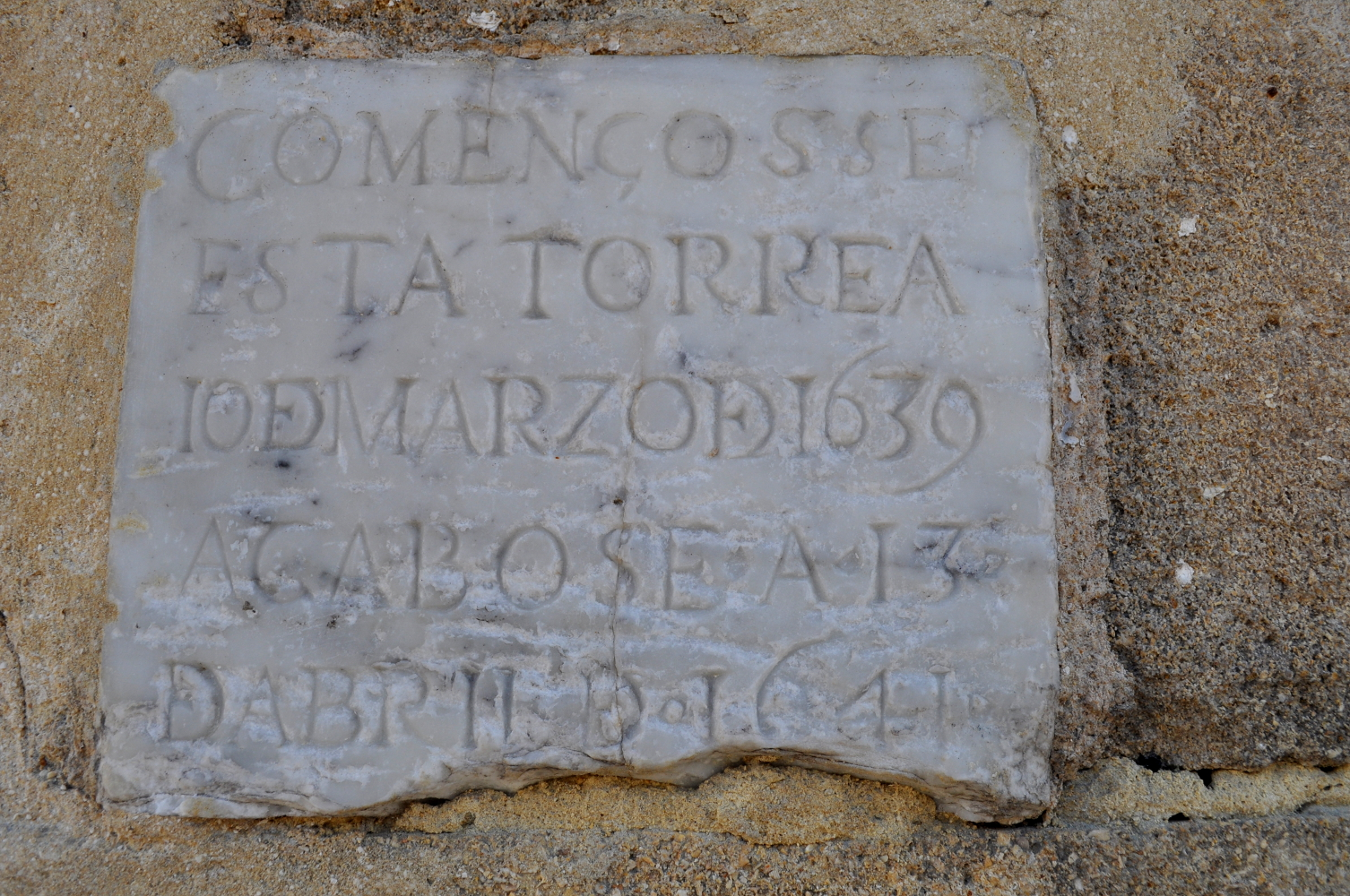 Tower plaque, Victoria Church, Jerez